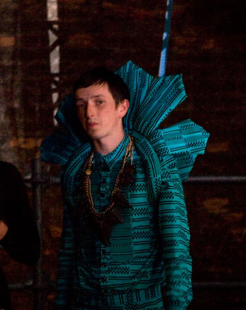 Totally Enormous Extinct Dinosaurs, EXIT 2012.